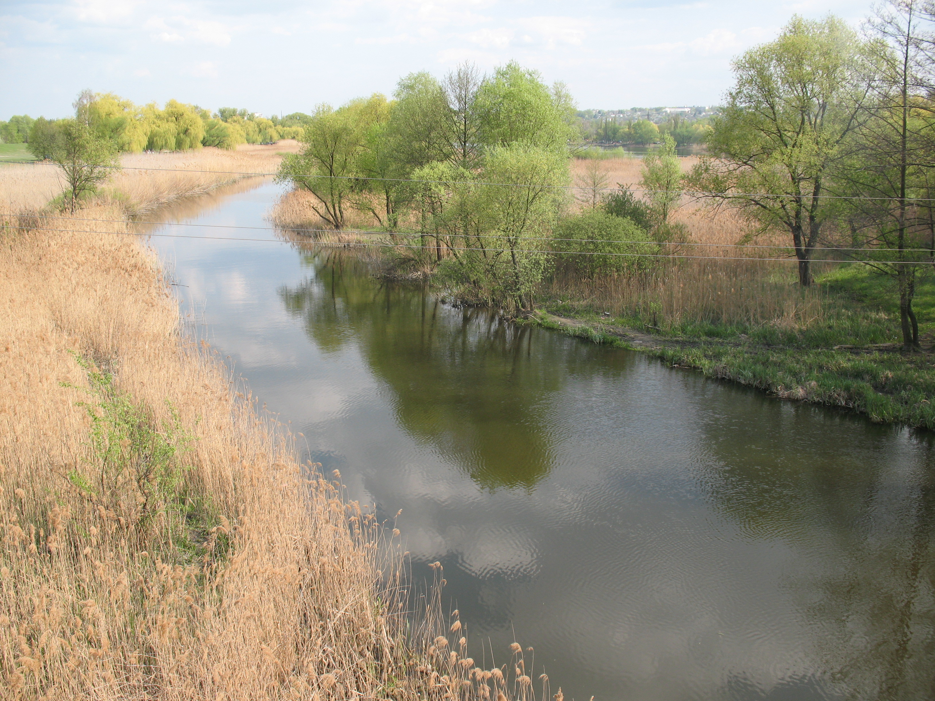 Udy River in spring. Kharkov, New Bavaria, 1 May.